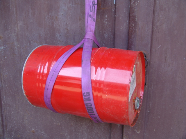 Lark's Head, Cow Hitch, Girth Hitch